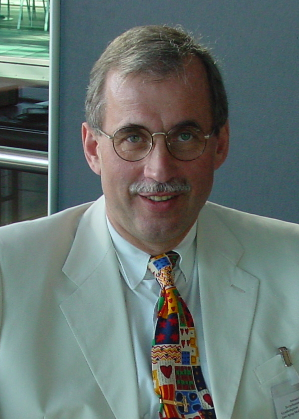 Prof. Dr. med. Thomas Rabe